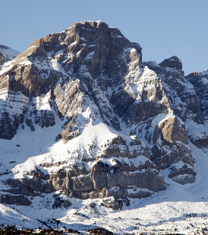 Peña Telera (2.764 m - 9,068 feet) in Tena Valley (Spanish Pyrenees)